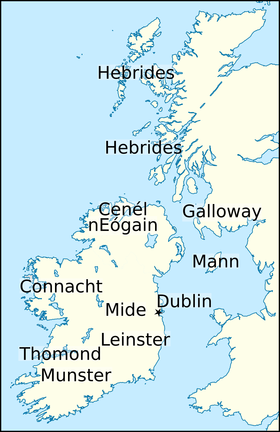 Locations relating to Domnall mac Taidc (died 1115), ruler of the Kingdom of the Isles, the Kingdom of Thomond, and perhaps the Kingdom of Dublin.